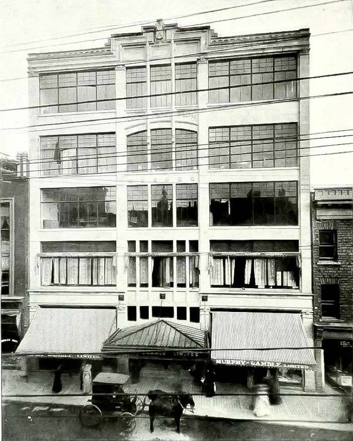 The Carling Building, Sparks Street, Ottawa. Occupied as a Departmental Store of the Murphy-Gamble Company. C. P. Meredith, Architect